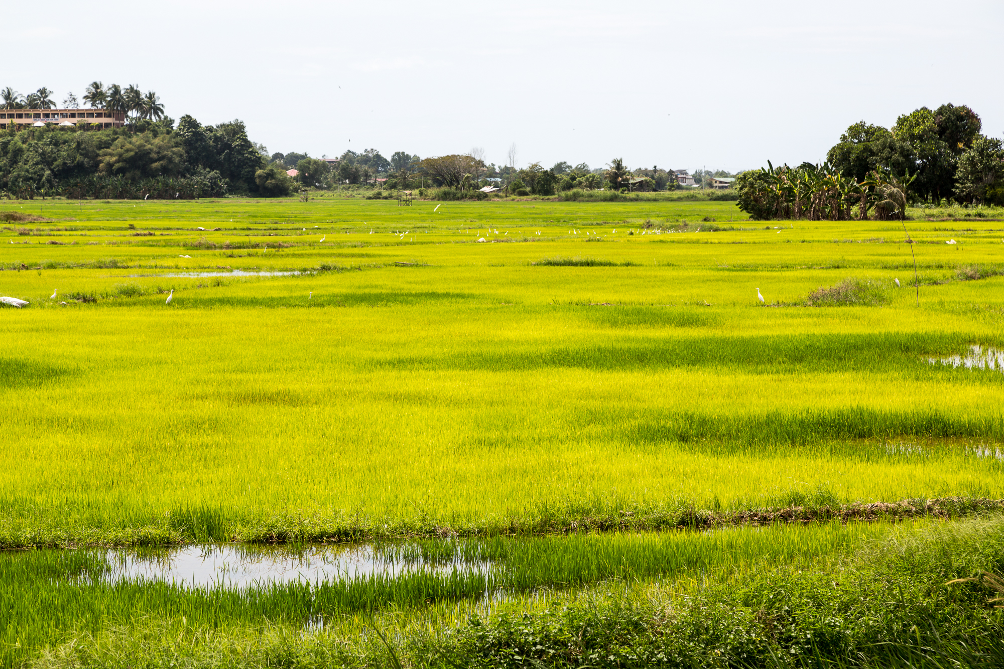 Donggongon, Sabah: Rice paddy